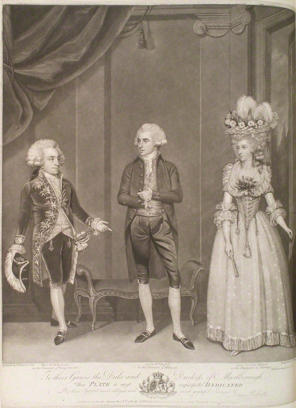 Hon Rd Edgcumbe in the Character of Clackitt Lord William Russell in the character of Mr Heartly, Lady Caroline Spencer, in the Character of Harriet. / Marlborough Theatricals